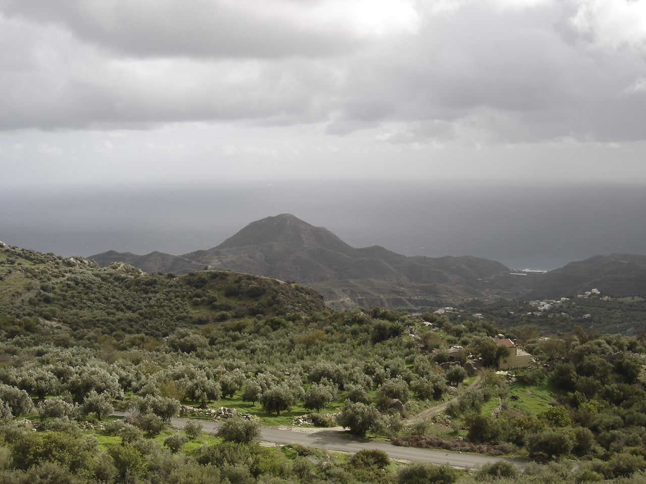 A view of Riza, a village in Lasithi prefecture.